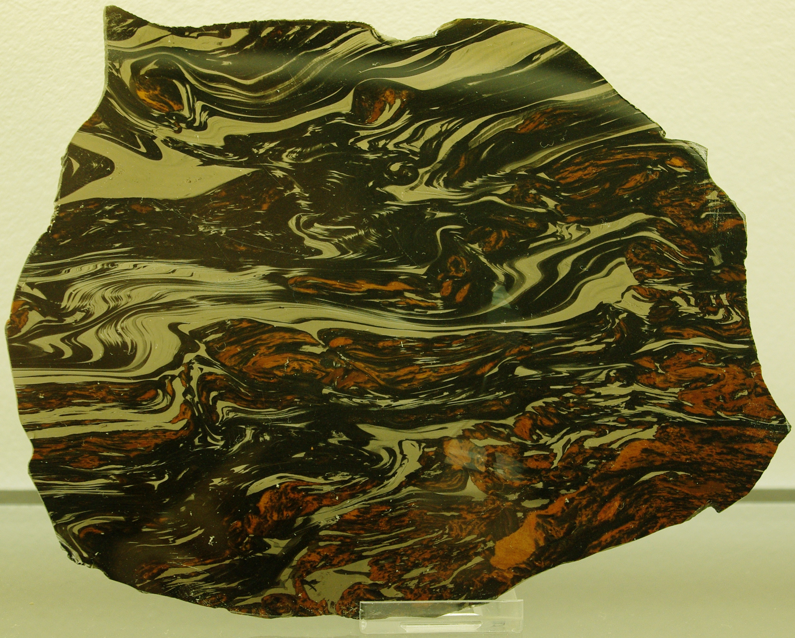 In the collections of the Rice Northwest Museum of Rocks and Minerals in Hillsboro, Oregon, USA. Obsidian from Oregon, USA.